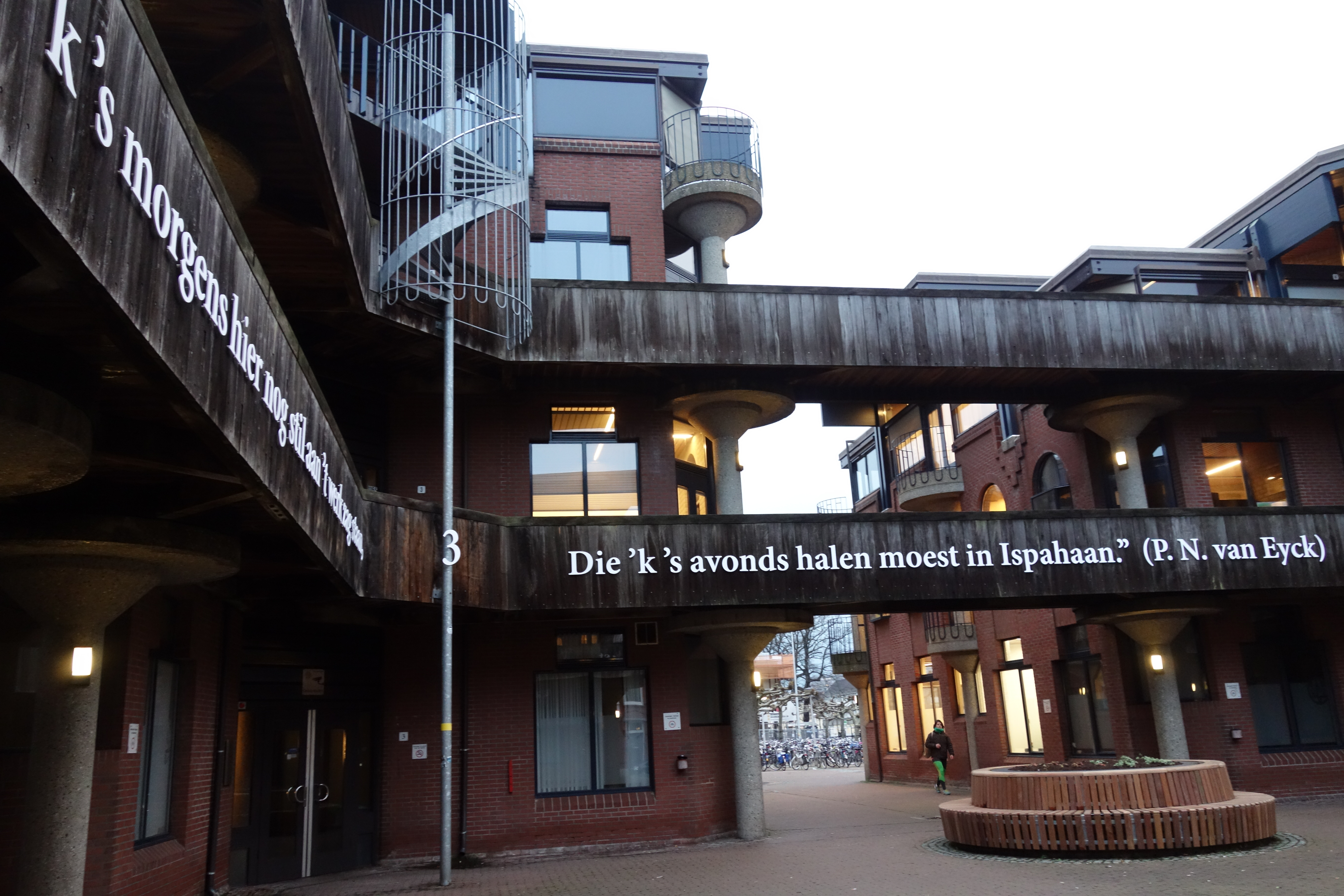 Faculty of Humanities, Leiden University. P.N. van Ecykhof, with lines from the poem De tuinman en de dood by P.N. van Eyck